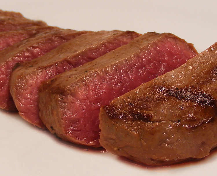 Reindeer steaks from the Lidl, sold for € 39,50 p/kg. I dediced to smoke them in my stovetop smoker and quickly grill them. As they were quite thin I was afraid to overcook them, but they turn out nice and rare. Very tender meat, with a slight gamy taste. A bit like springbok, I think.